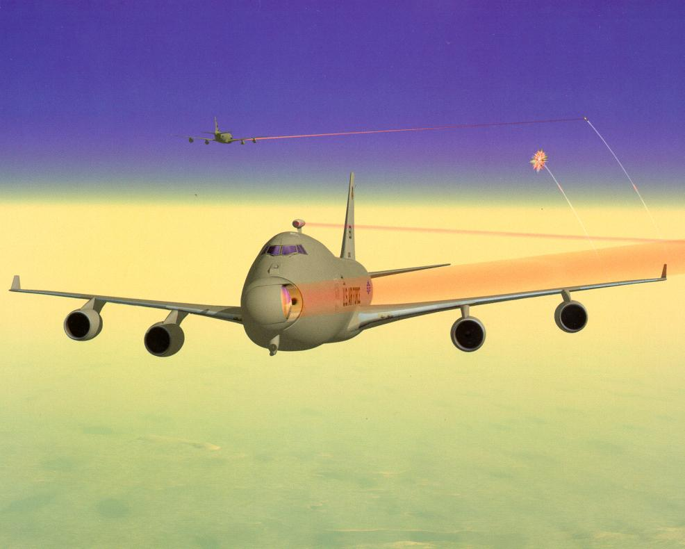 Quote from [1]: "Airborne Laser..."